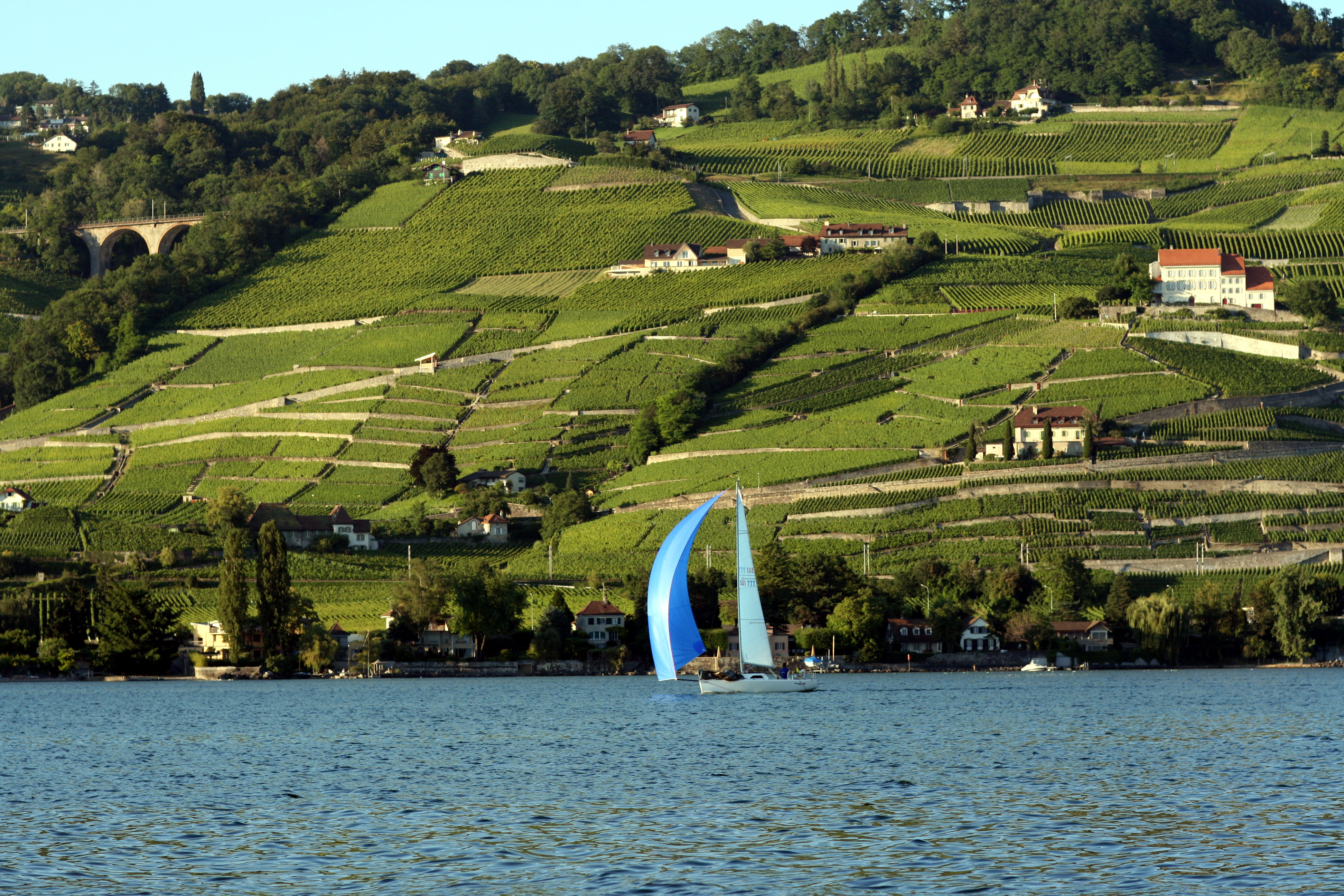 Lausanne was as green as I have ever seen. After a week of rain, the sun came out and we headed to the lake for an evening sail.